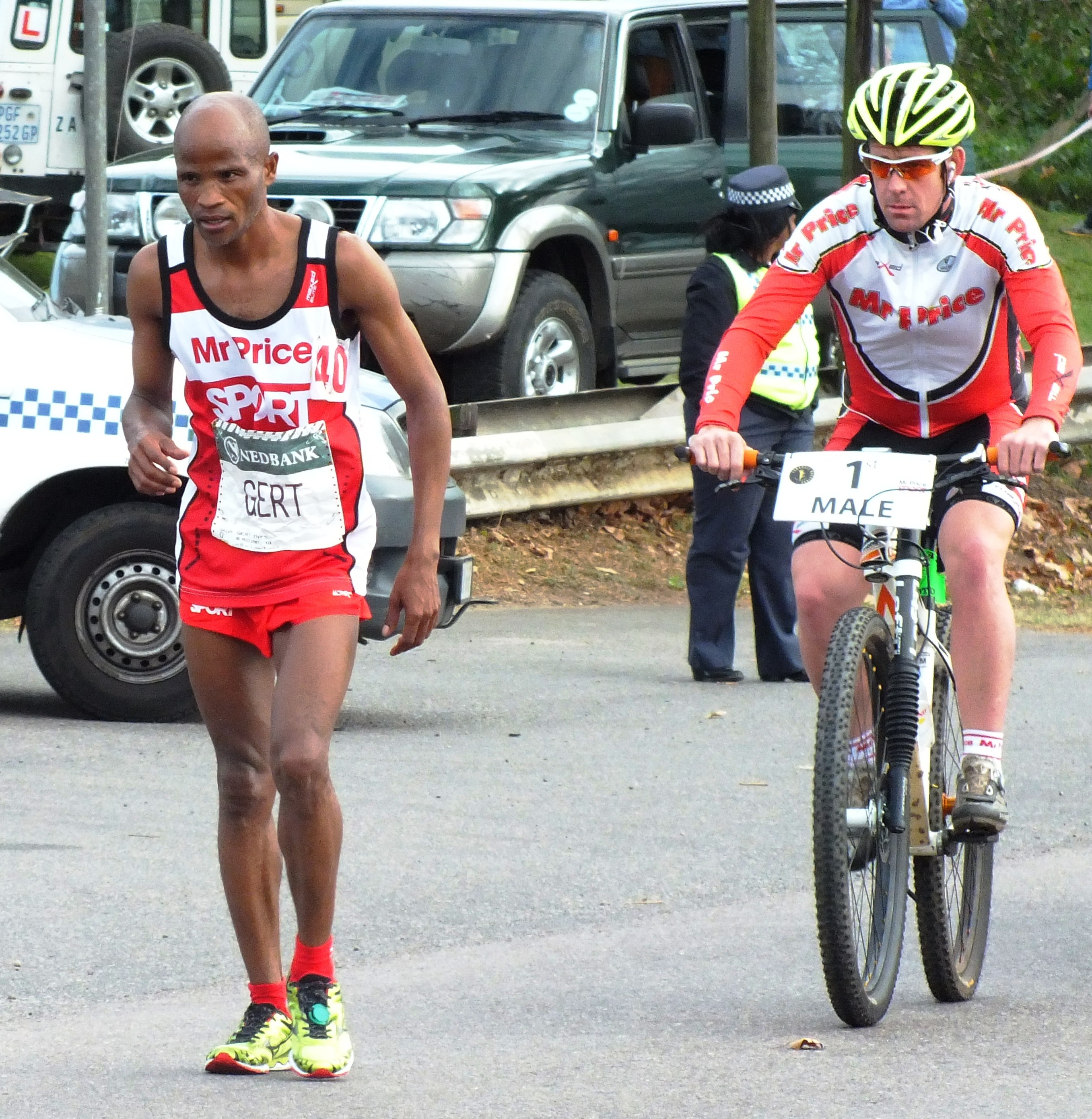 Gert Thys in leading position after 3 hours' running in the 2012 Comrades marathon. He slows to a walk and drops out with depleted blood sugar levels. Gert Thys is the South African record holder in the standard marathon.